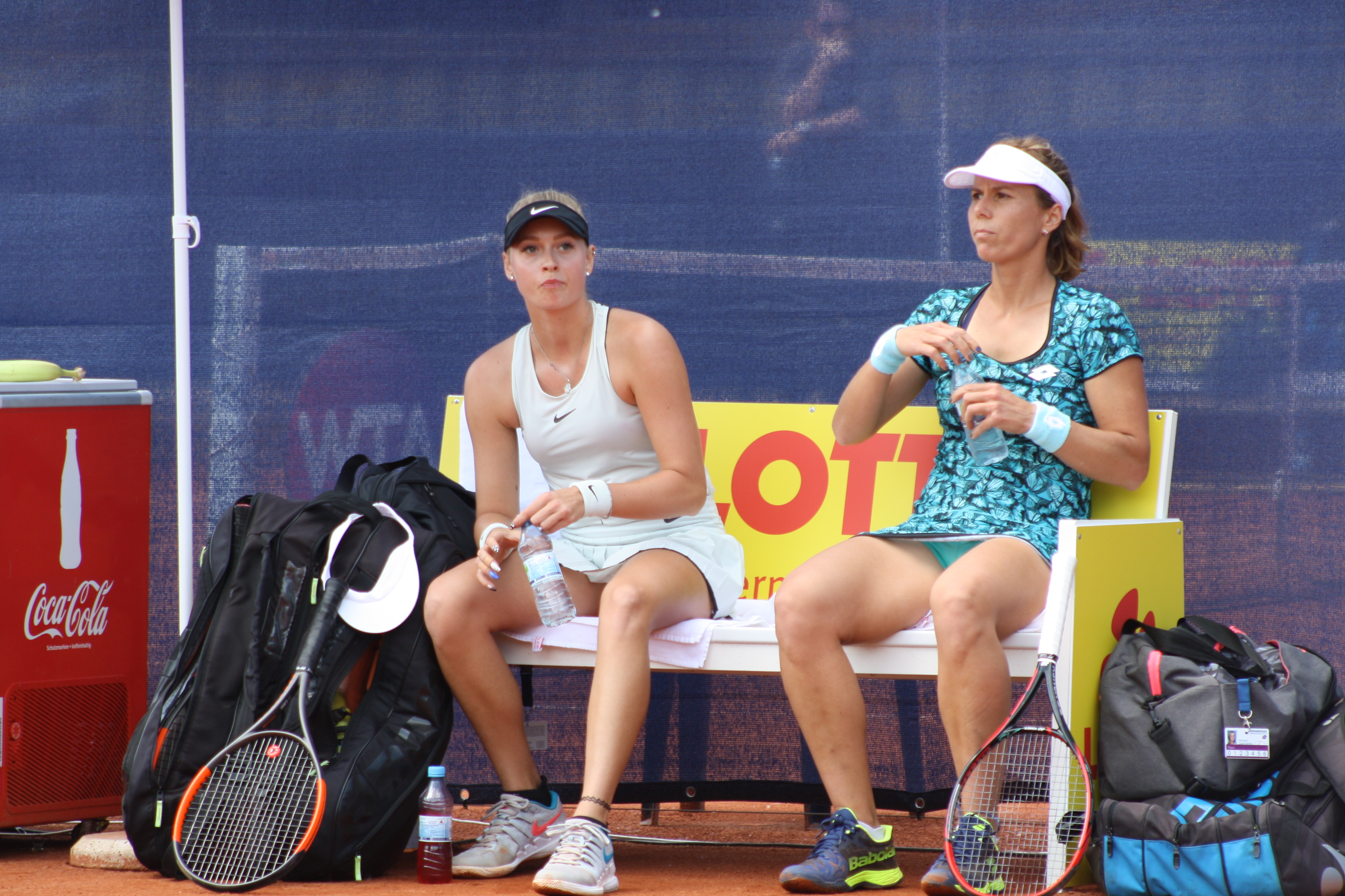 Varvara Lepchenko and Fanny Stollár, May 2018